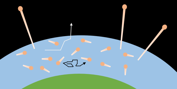 schematic of Jeans escape